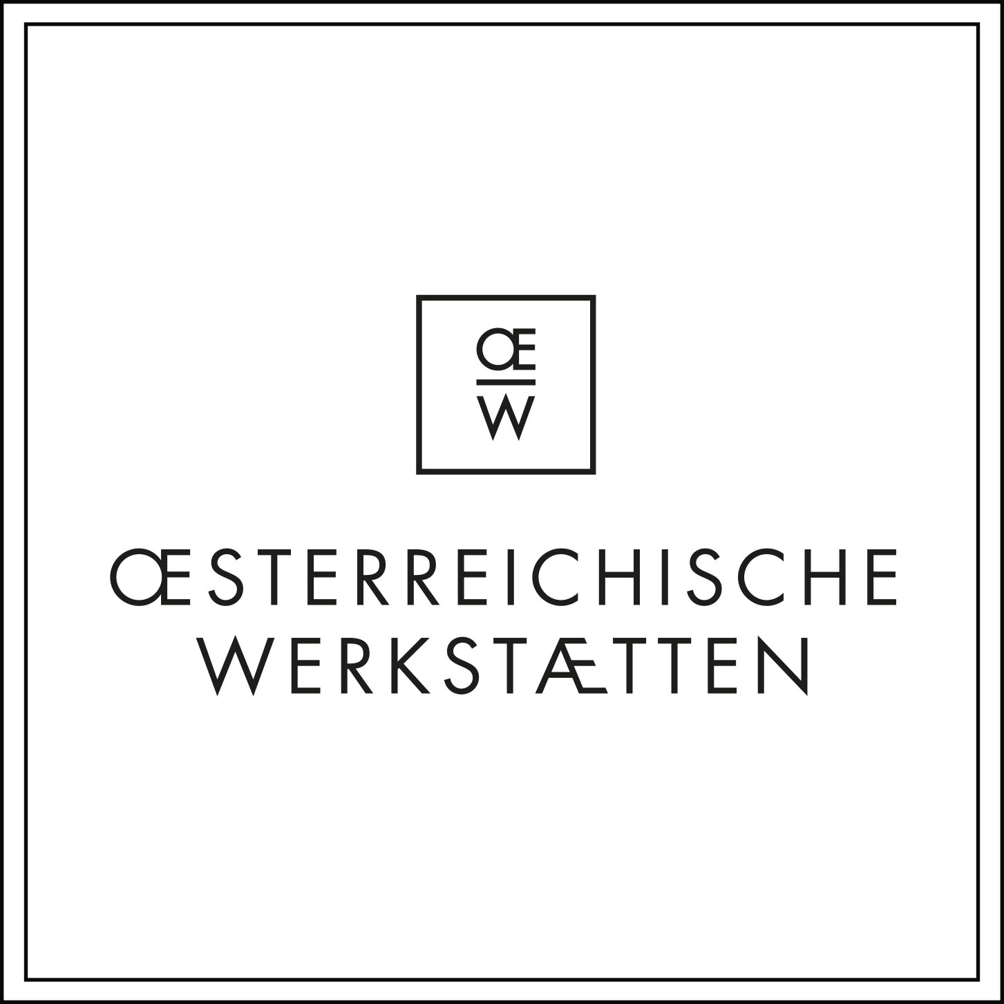 Logo of the Österreichische Werkstätten from 2018